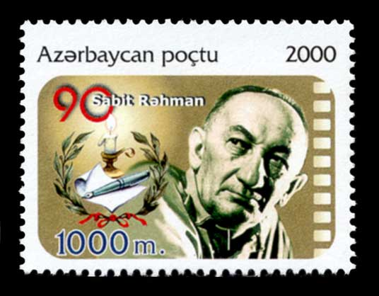 Stamp of Azerbaijan